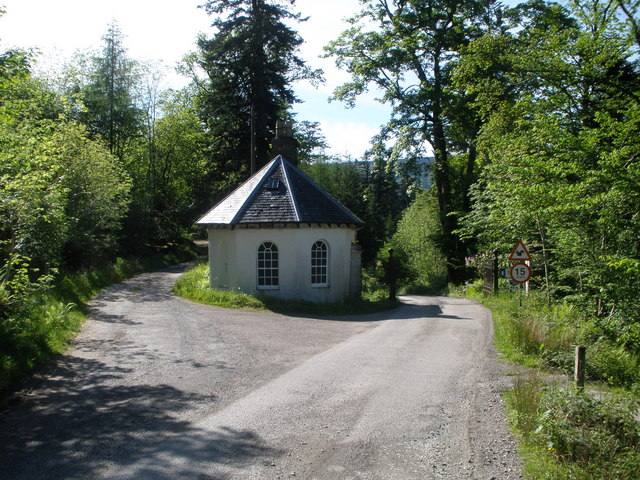 Gatehouse at Ardkinglas Estate This gatehouse is know locally as the 'thruppenny bit' house. It lay partially derelict for many years but was then renovated and is now an office used by a local architect. I was once told that a family of fourteen lived there, not sure how true that is though.